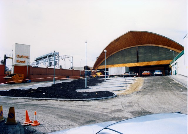 Manchester Oxford Road station exterior During 1988 the station was facelifted. The listed 1959 wooden roofs and platform canopies were, of course, retained.